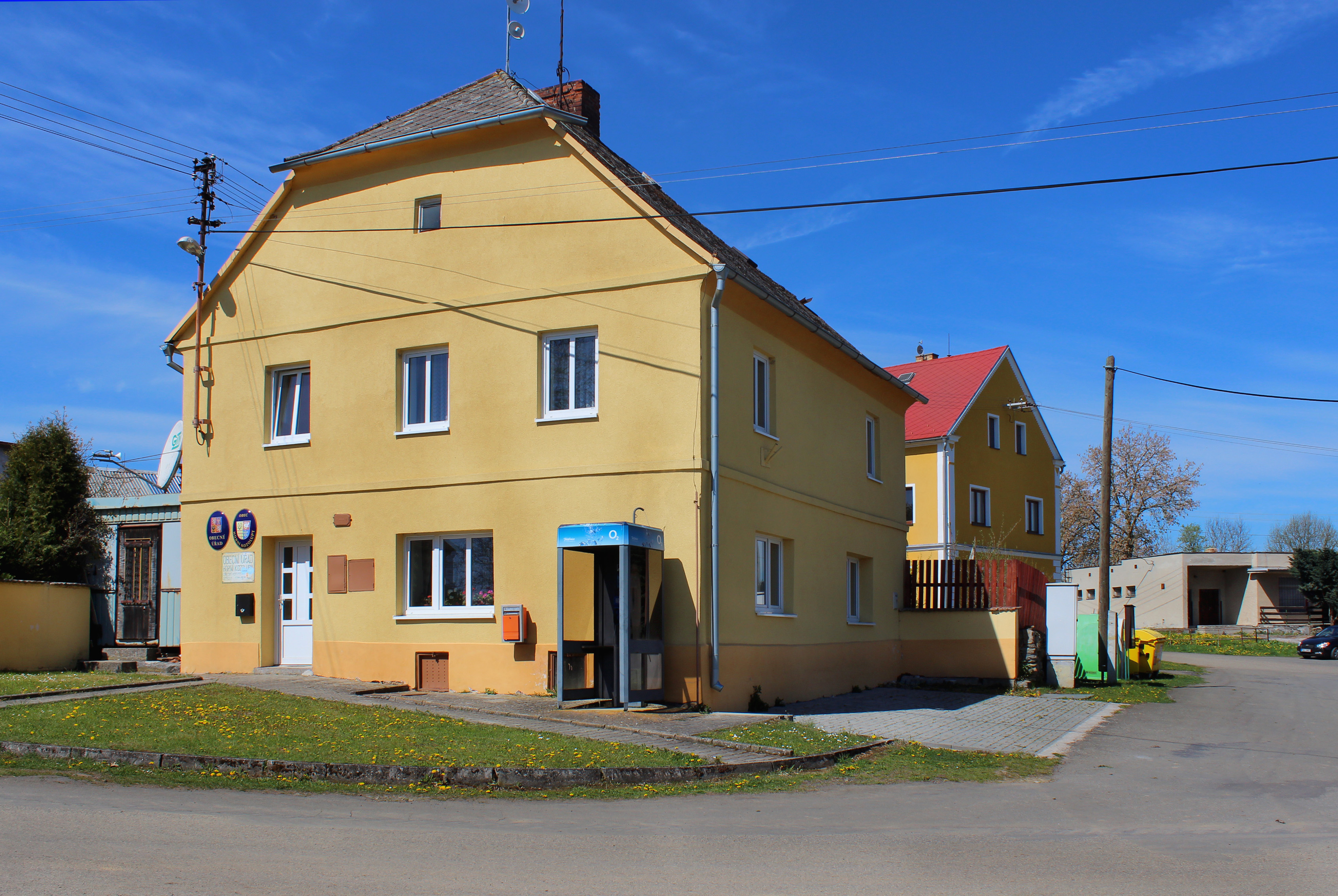 Municipal office in Horní Kozolupy village, Czech Republic